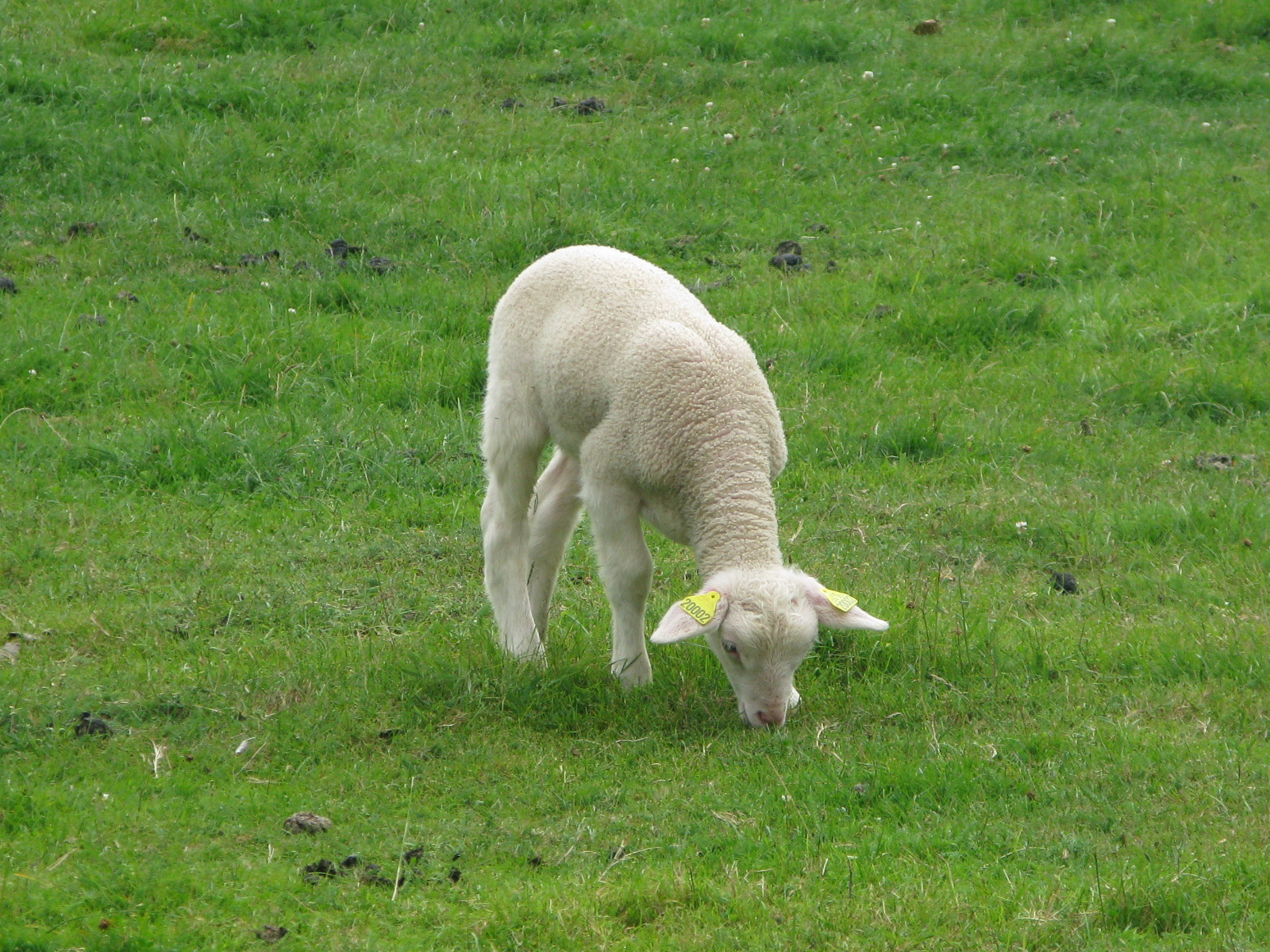 Lamb (Ovis aries) of INRA 401 breed, bergerie nationale de Rambouillet.